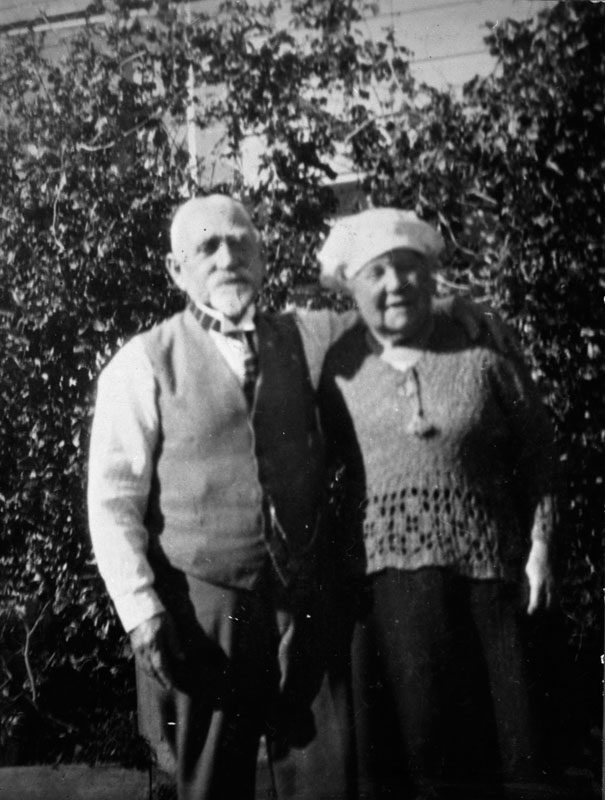 Mr and Mrs Solomon Abrahams in circa 1910. Solomon Abrahams (1849-1932) was born in London, of Jewish parentage, and came to New Zealand in 1865. He first worked in Wellington before coming to Palmerston North in May 1872. He set up business as a General Store keeper, and later became a pawnbroker in The Square. Abrahams was a Borough Councillor, 1884-1887, 1897-1900, 1905-1907, and Mayor of Palmerston North 1887-1889.